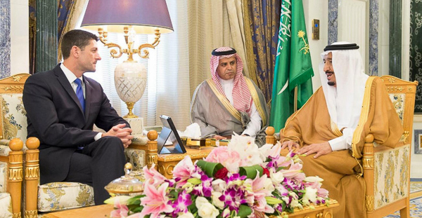 Saudi King Salman speaks with U.S. House Speaker Paul Ryan.